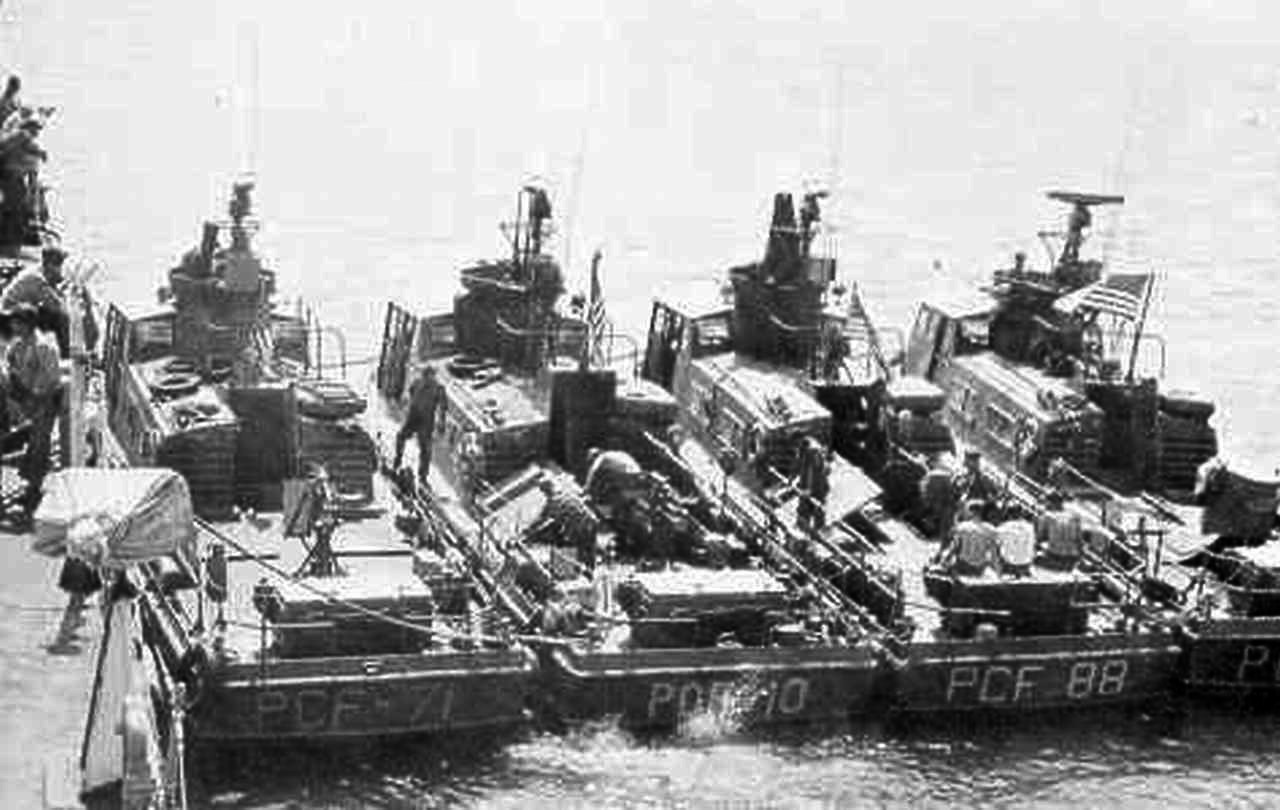 Four swift boats in Vietnam